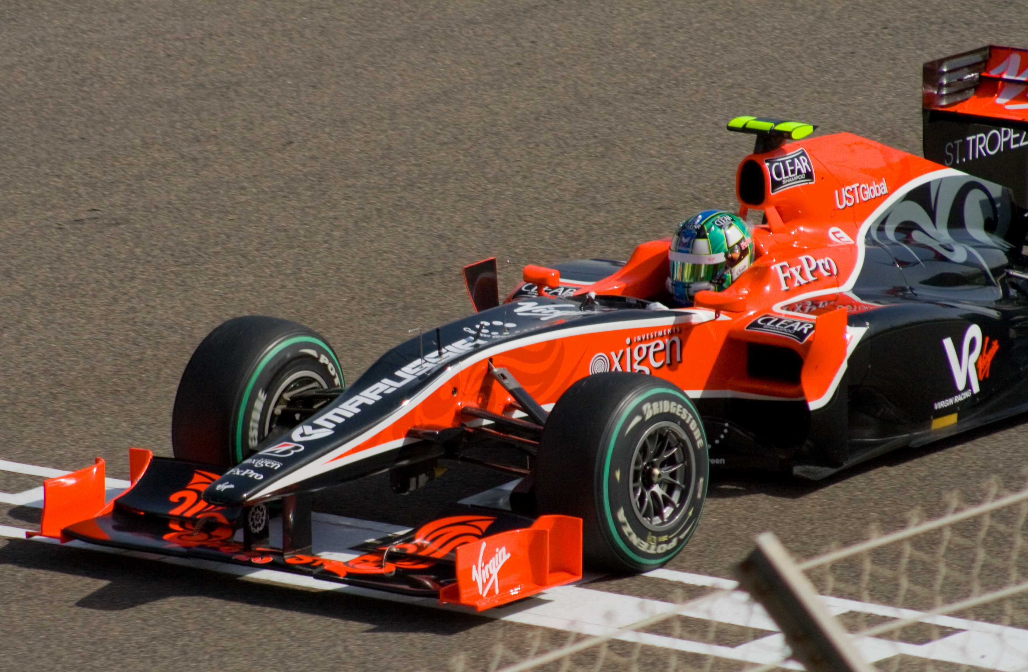 Virgin at Bahrain - Lucas di Grassi on the circuit during a practice session in Bahrain.